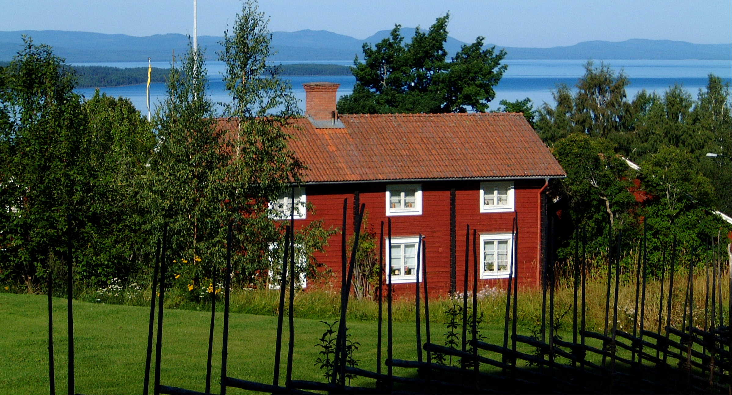 A typical house in Tallberg, Sweden